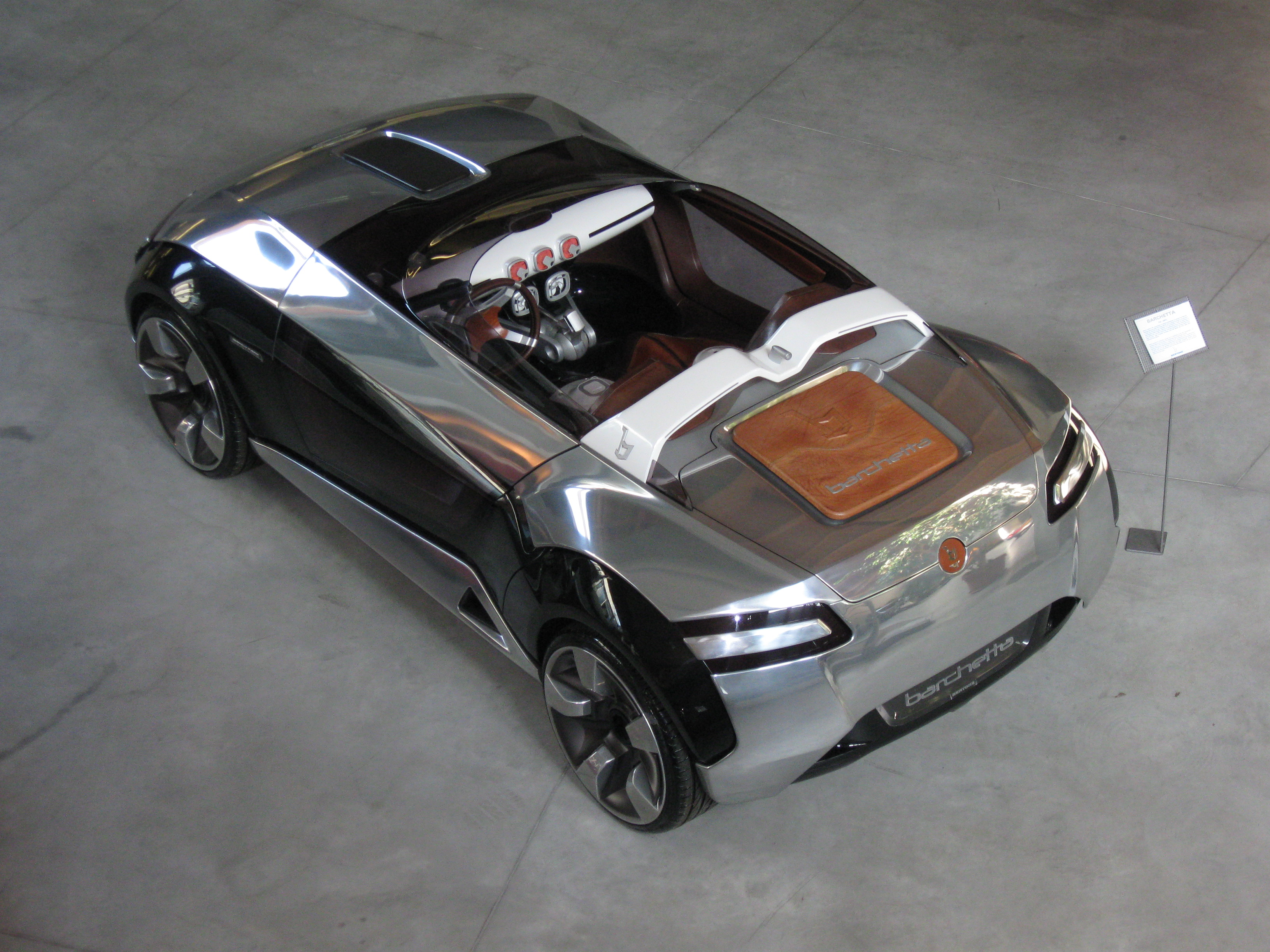 Bertone created this concept car - the "Barchetta" for Fiat in 2007. The picture was taken in the basement showroom at Bertone.